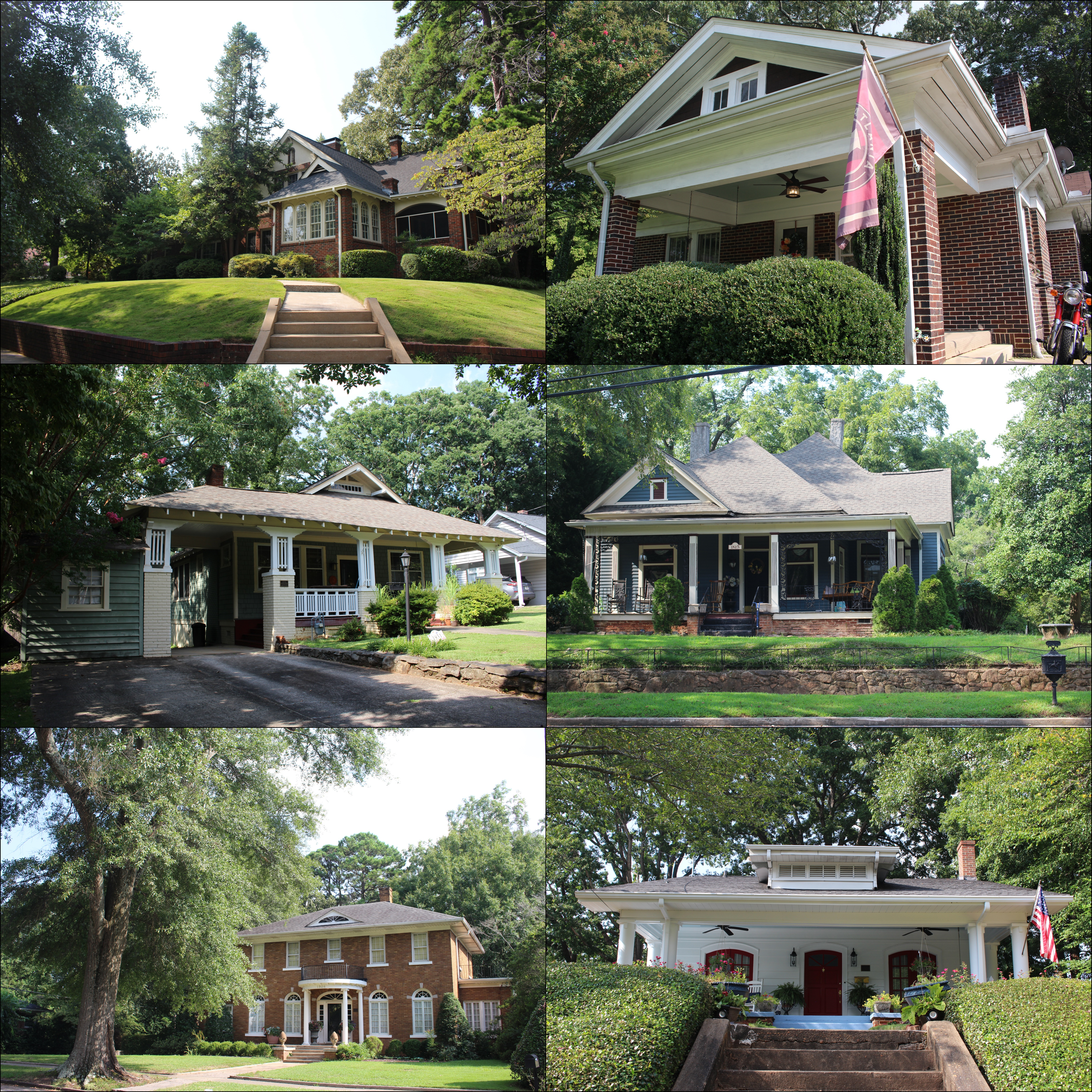 Examples of the different styles of historic home present in the College Park Historic District, College Park, GA